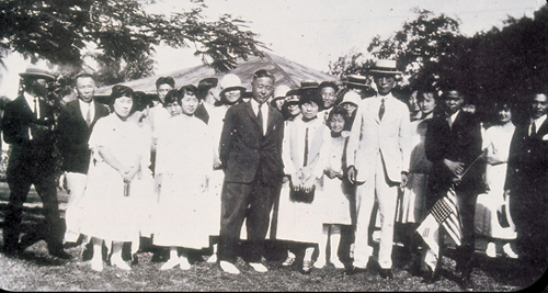 Syngman Rhee and Seo Jae-pil